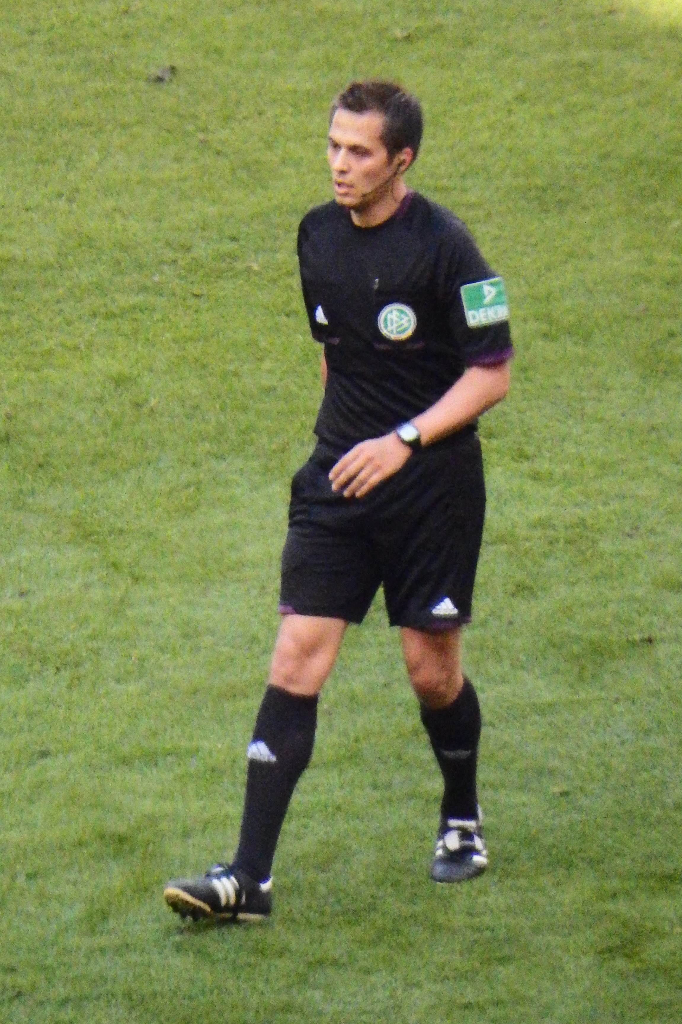 Robert Hartmann German Referee